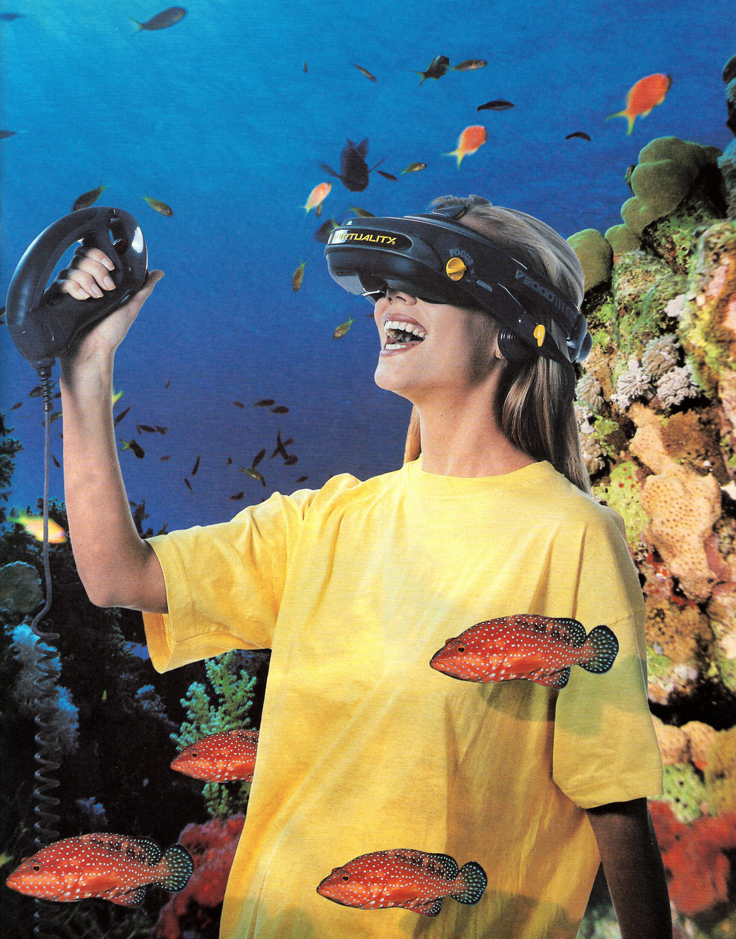 A page from a Virtuality gaming system marketing piece showing the visette and controller.